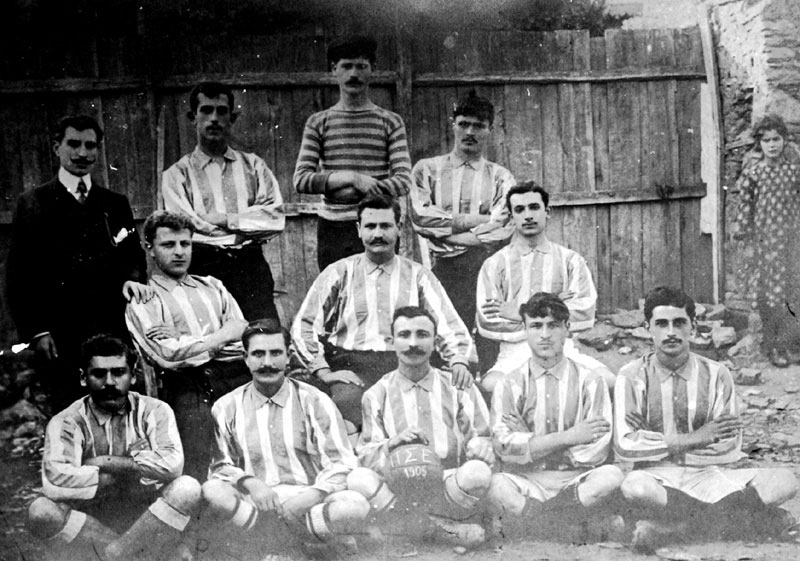 Elpis Football Club The men on the left with a suit on is the team manager Yani Vasiliadis.